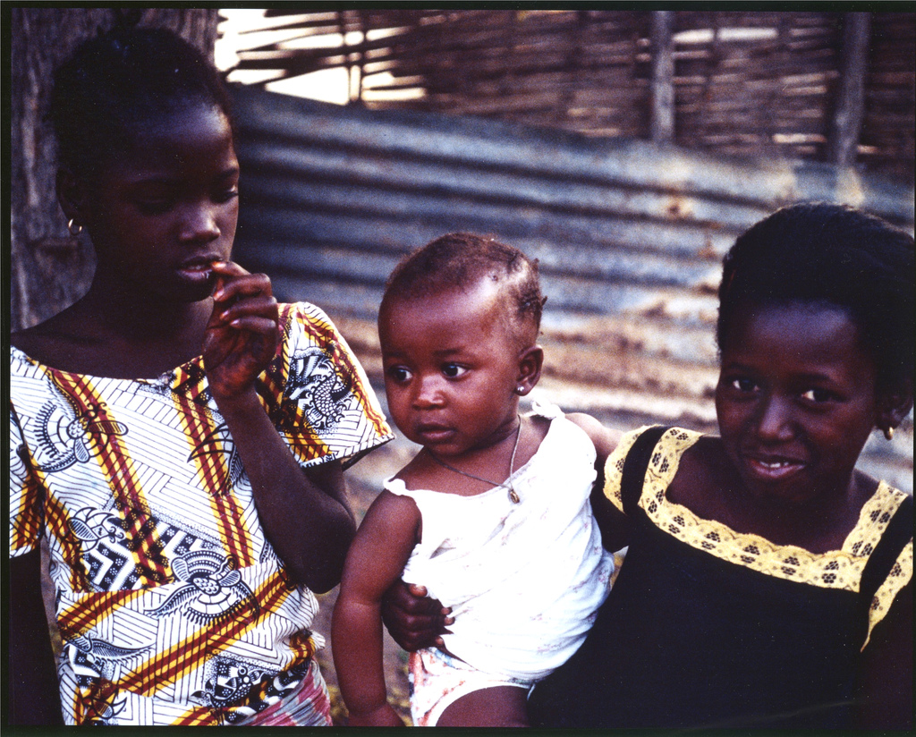 Mandingo children in Kedougou, southeast Senegal (West Africa)